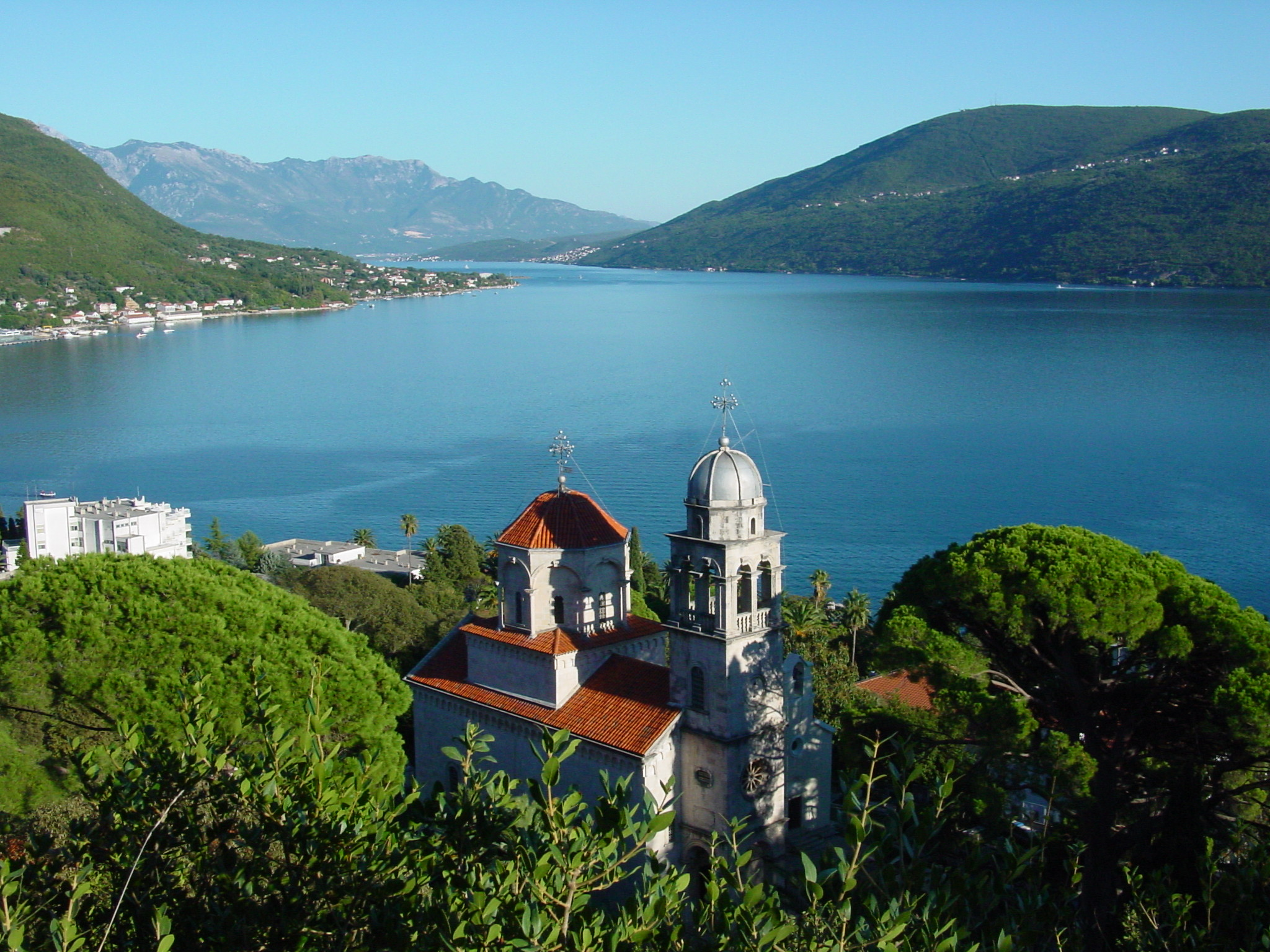 Savina Monastery, Montenegro Srpski (latinica): Manastir Savina, Crna Gora